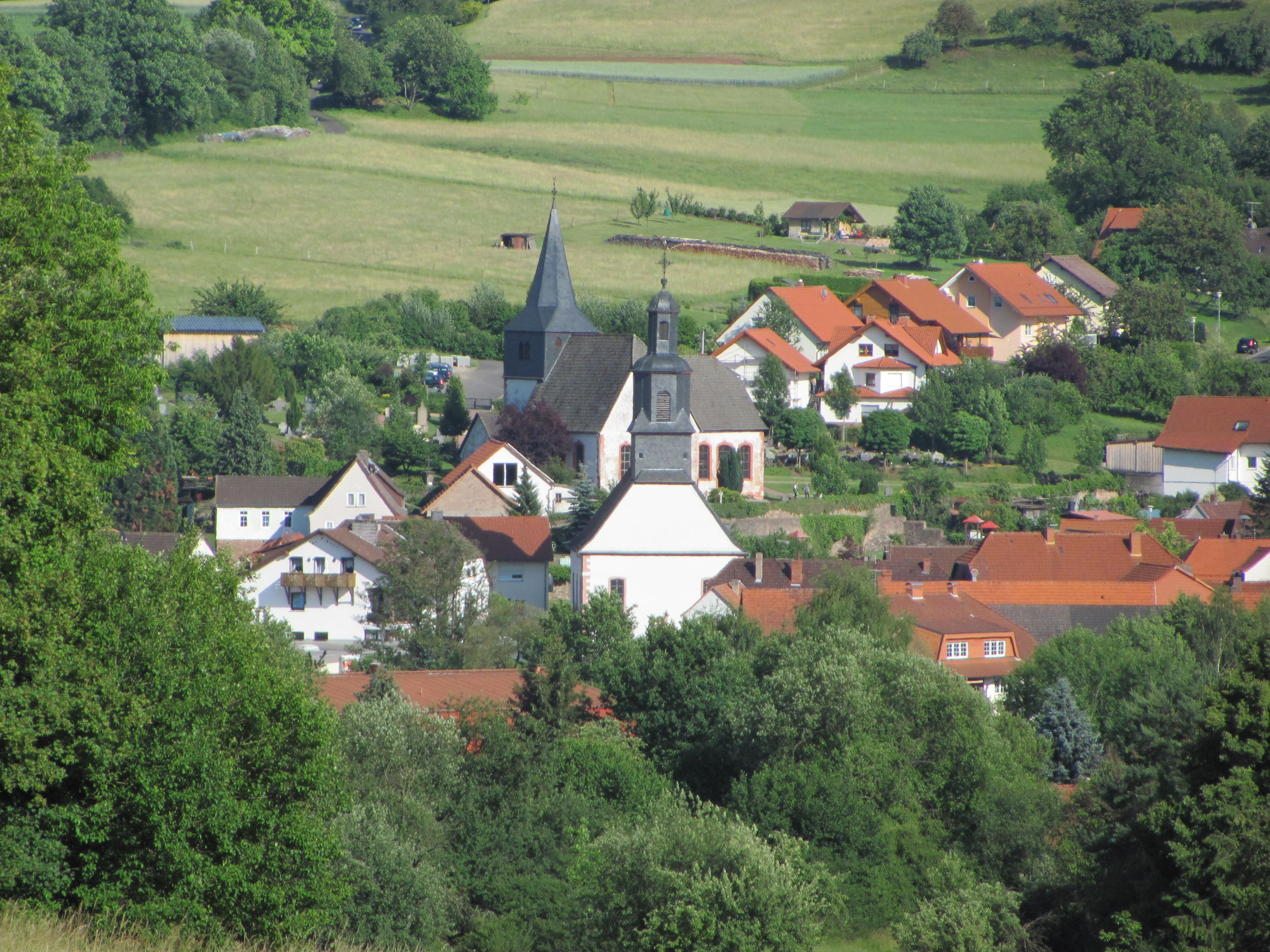 Biebergemünd-Bieber